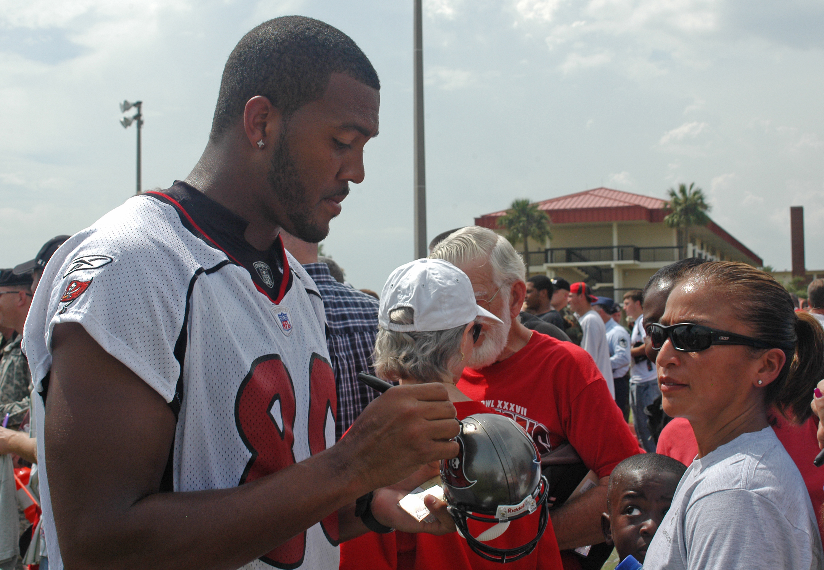 Buccaneers wide receiver Michael Clayton signs a miniature helmet for a fan after the pre-game, walkthrough practice held at MacDill Air Force Base, Fla., on Aug. 18. The practice was closed to the general public but open to base personnel. Airmen who attended the practice were able to get an up-close look at the 2006 Buccaneers team. (U.S. Air Force photo/Staff Sgt. Randy Redman)